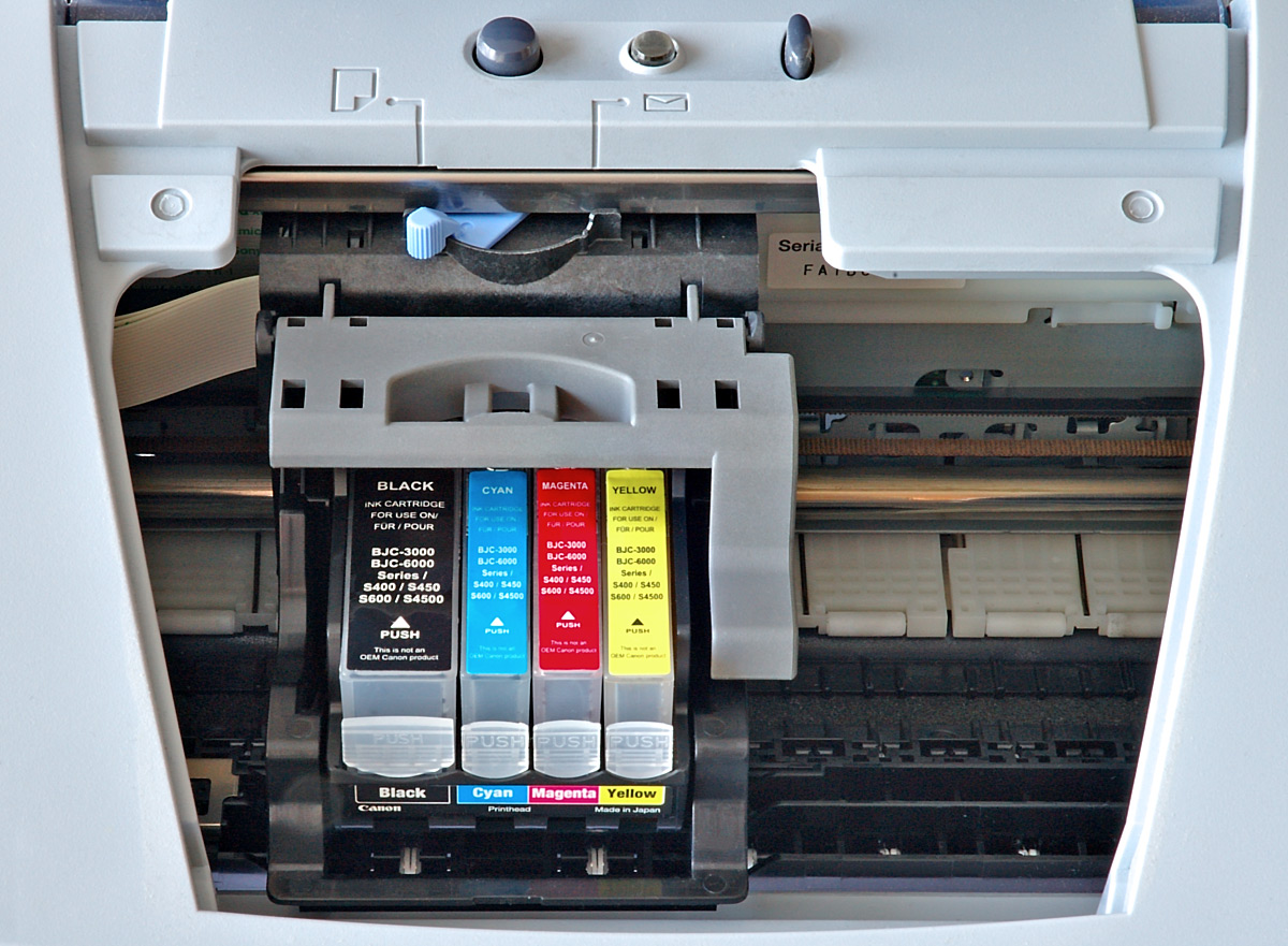 This image shows an opened Canon S520 ink jet printer.